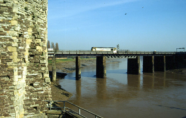 River Usk, Newport. This shows the remains of Newport's medieval castle and the bridge carrying the main London - Cardiff railway.